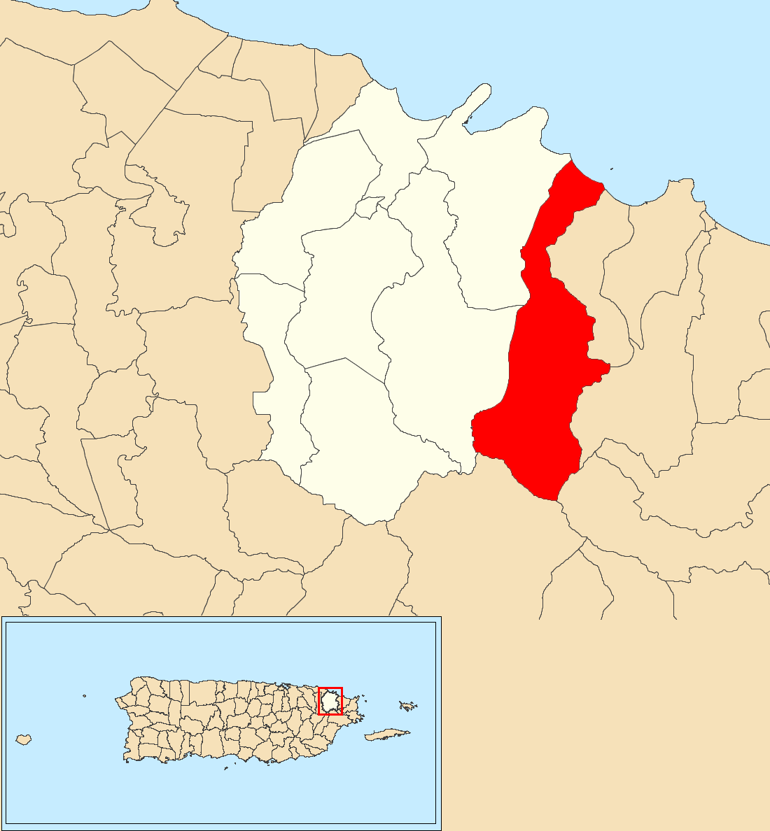 Mameyes II, Río Grande, Puerto Rico locator map